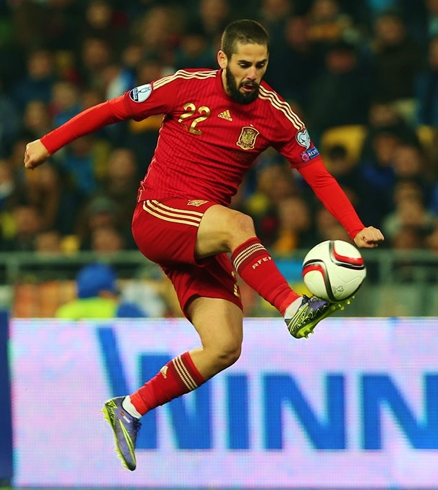 Isco 2015